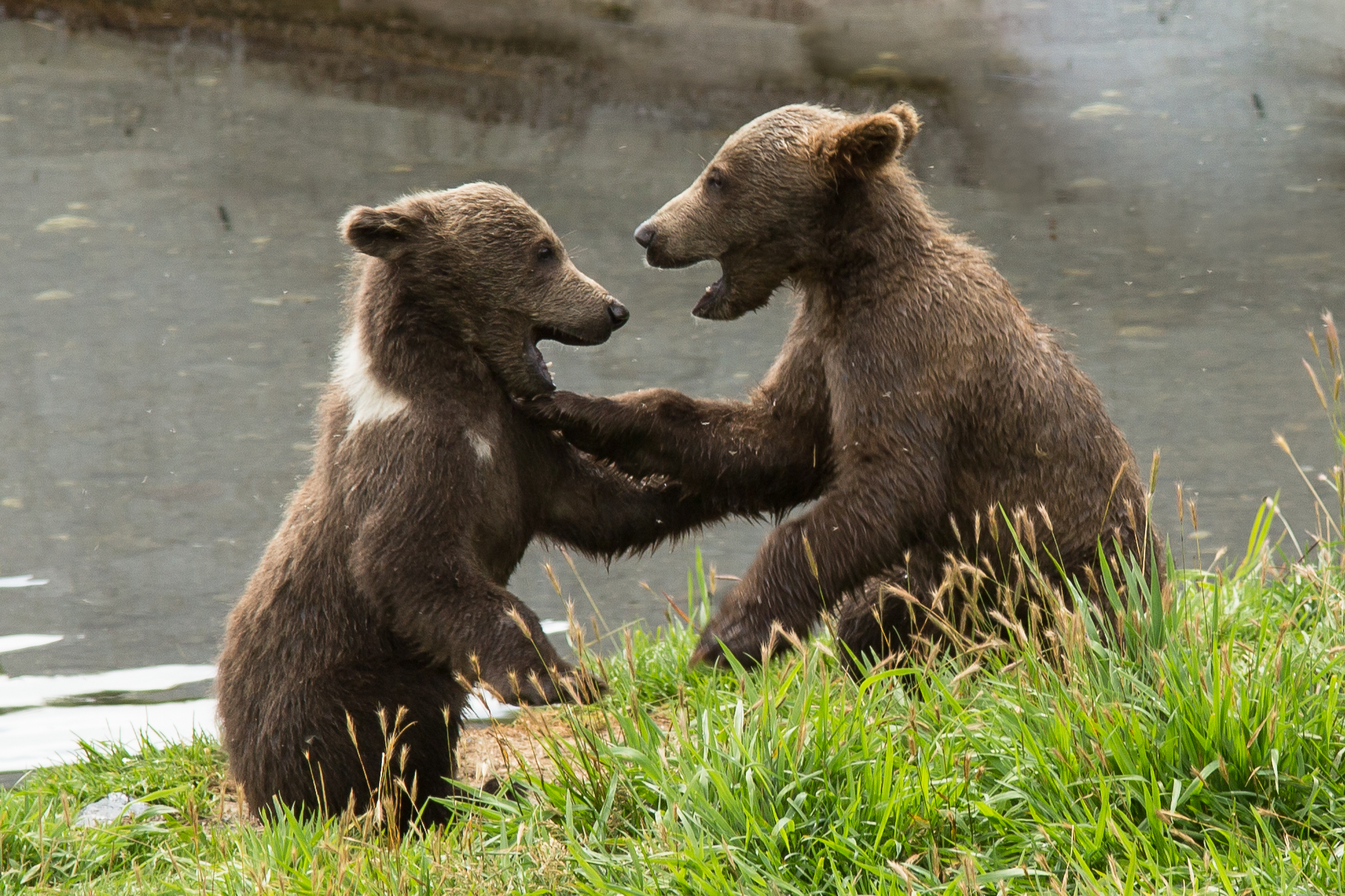 Playful wrestling between two Kodiak brown bear cubs